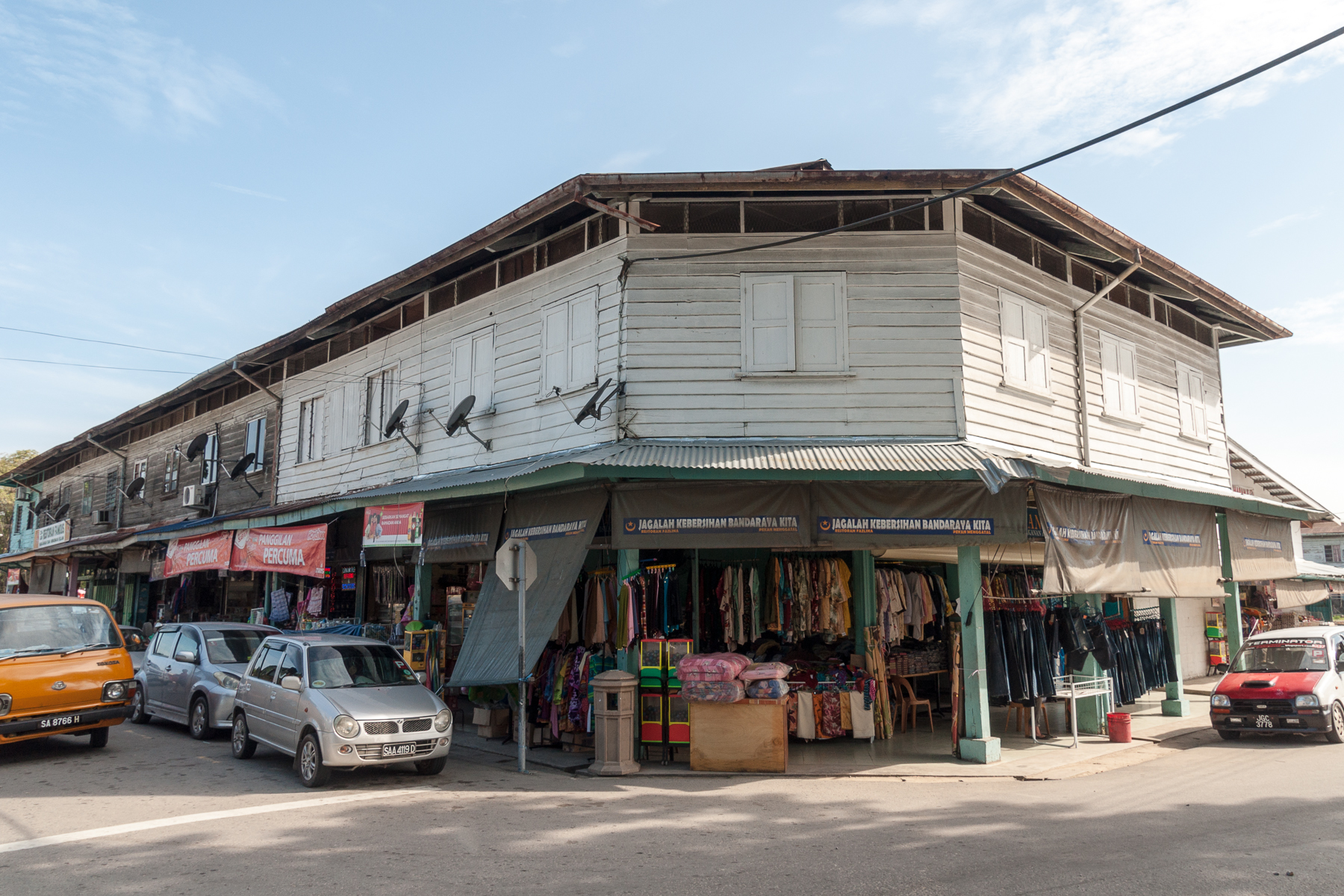 Rivers of Sabah, Malaysia: Old Colonial Shop Row